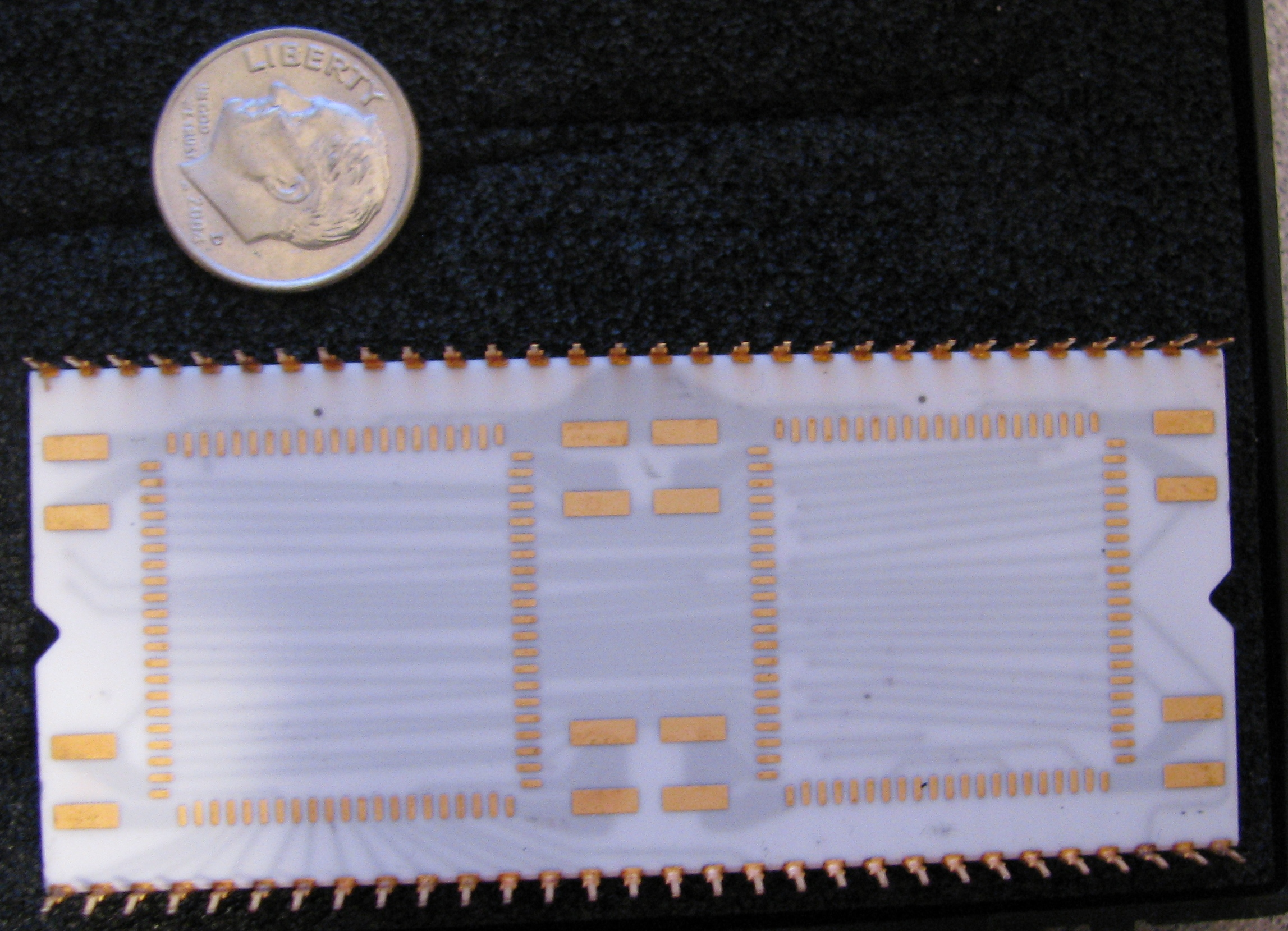 Photograph of bottom side of DEC J-11 microprocessor. US dime shown for scale.